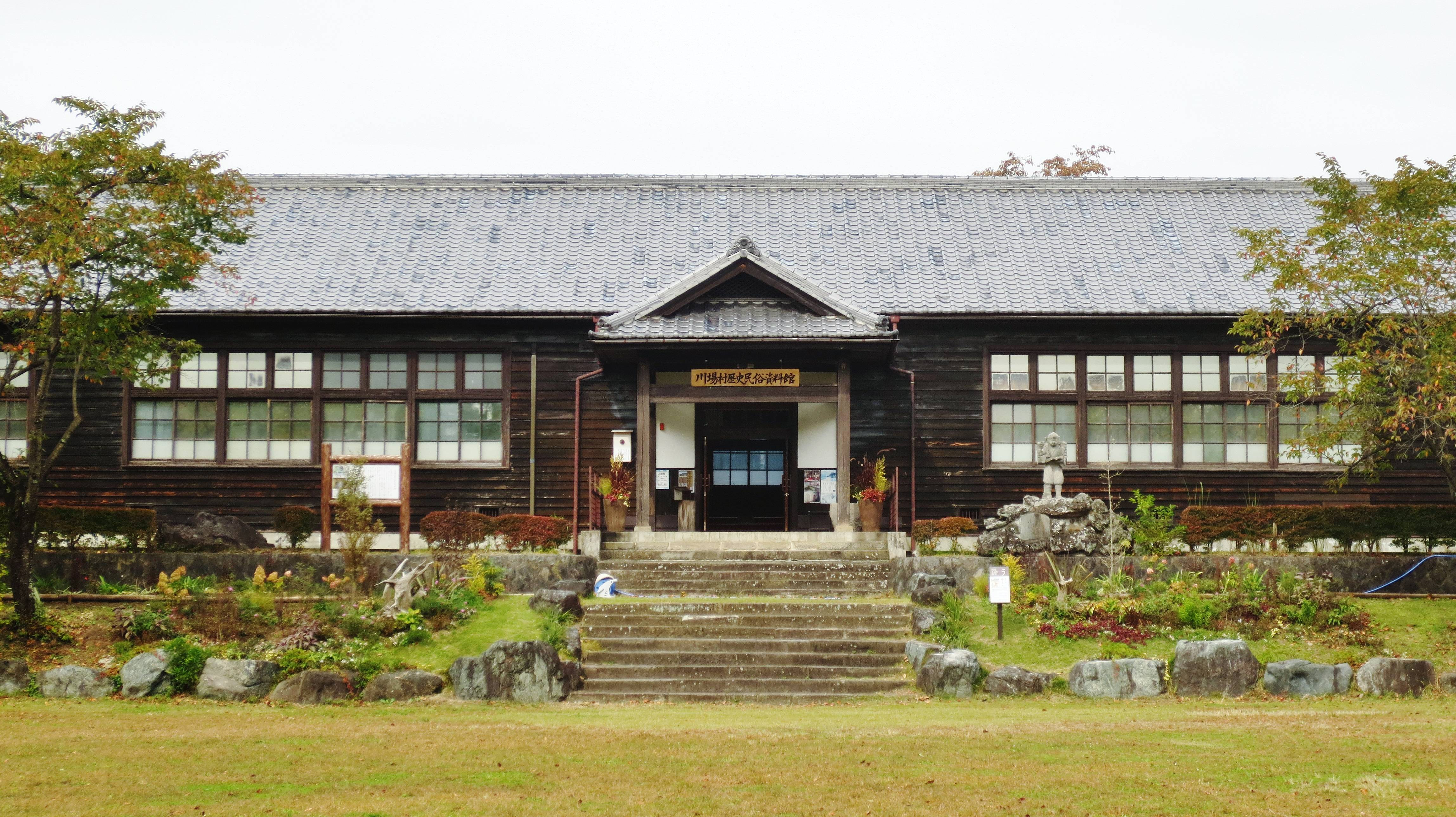 Museum of History and Folklore of Kawaba.